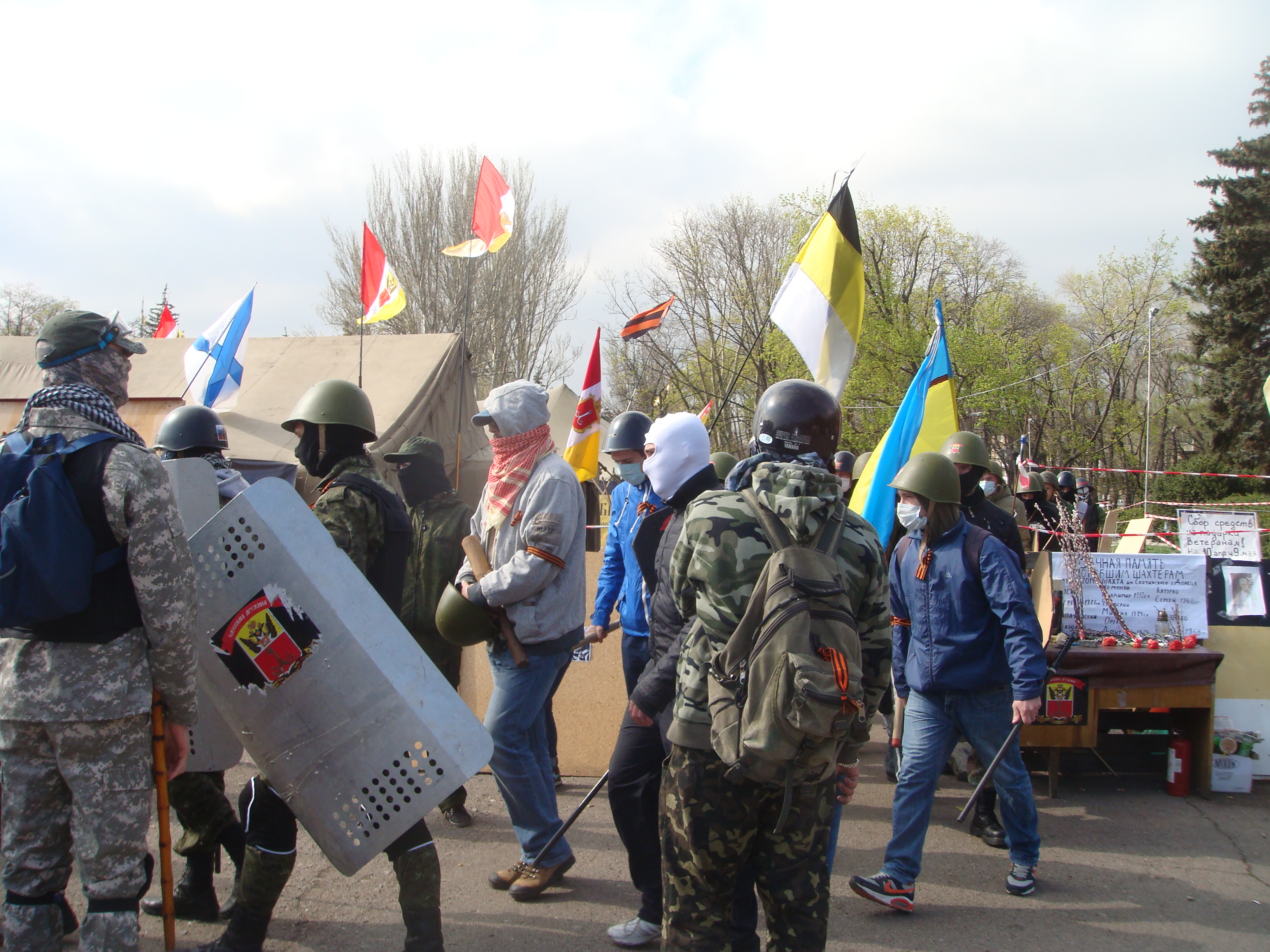 Pro-Russian meeting in Odessa on 2014-04-13. Camp of local militants - "Odesskaya Druzhina".